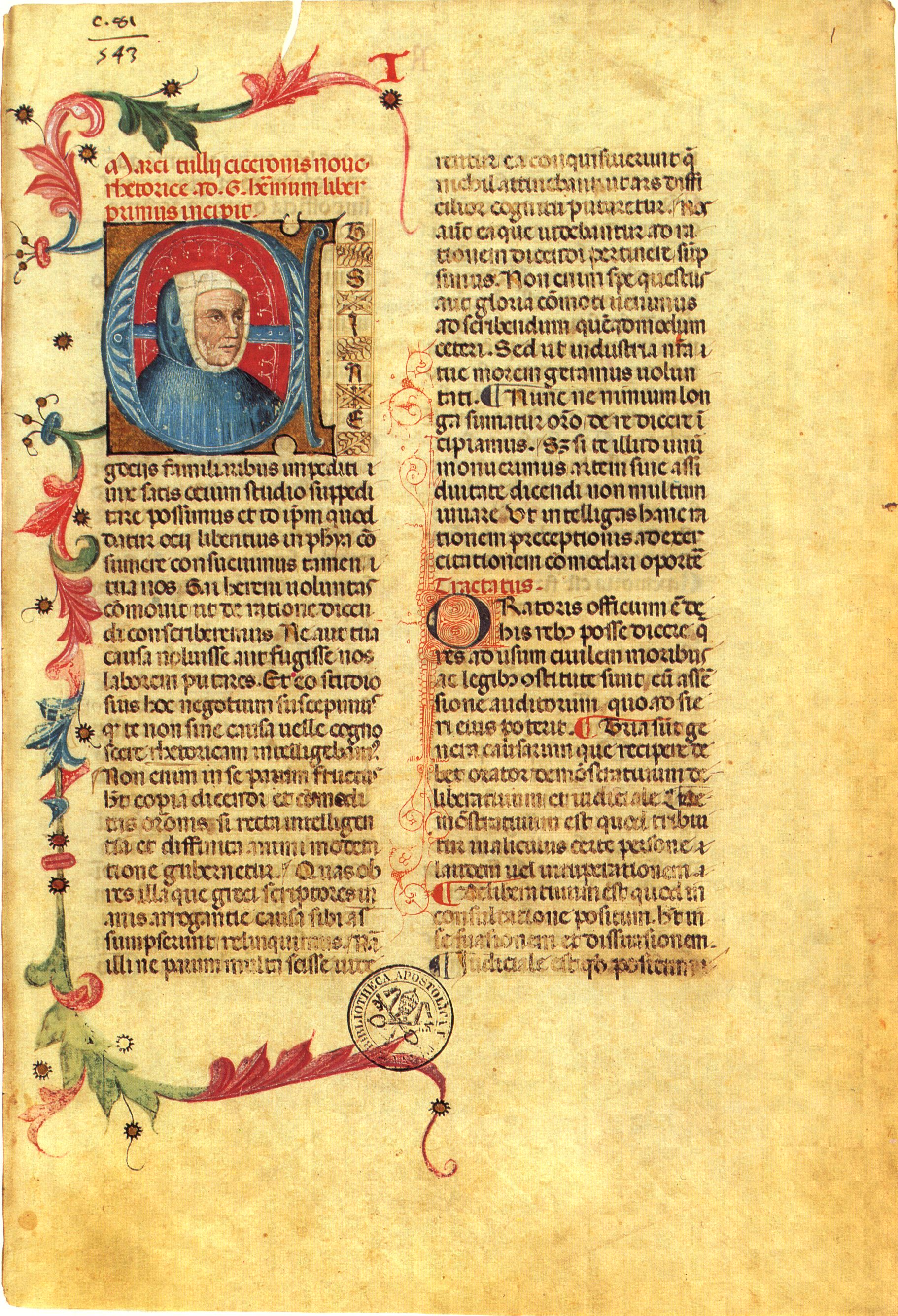 Rhetorica ad Herennium in ms. Biblioteca Apostolica Vaticana, Vaticanus Palatinus lat. 1459, fol. 1r.